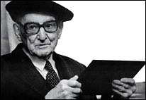 Bernardo Estornes Lasa. Promoter of Basque culture, writer, founder and director of the General Illustrated Encyclopedia of the Basque Country. Born in Isaba, Navarra, May 11, 1907. Died at May 11, 1907, San Sebastian August 10, 1999.